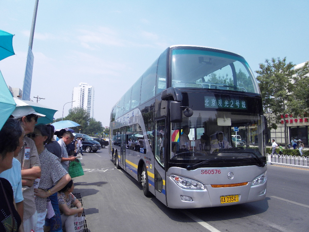 A Yaxing JS6130SHJ (coach?) serving the Sightseeing Route 2 during the Beijing Olympics.